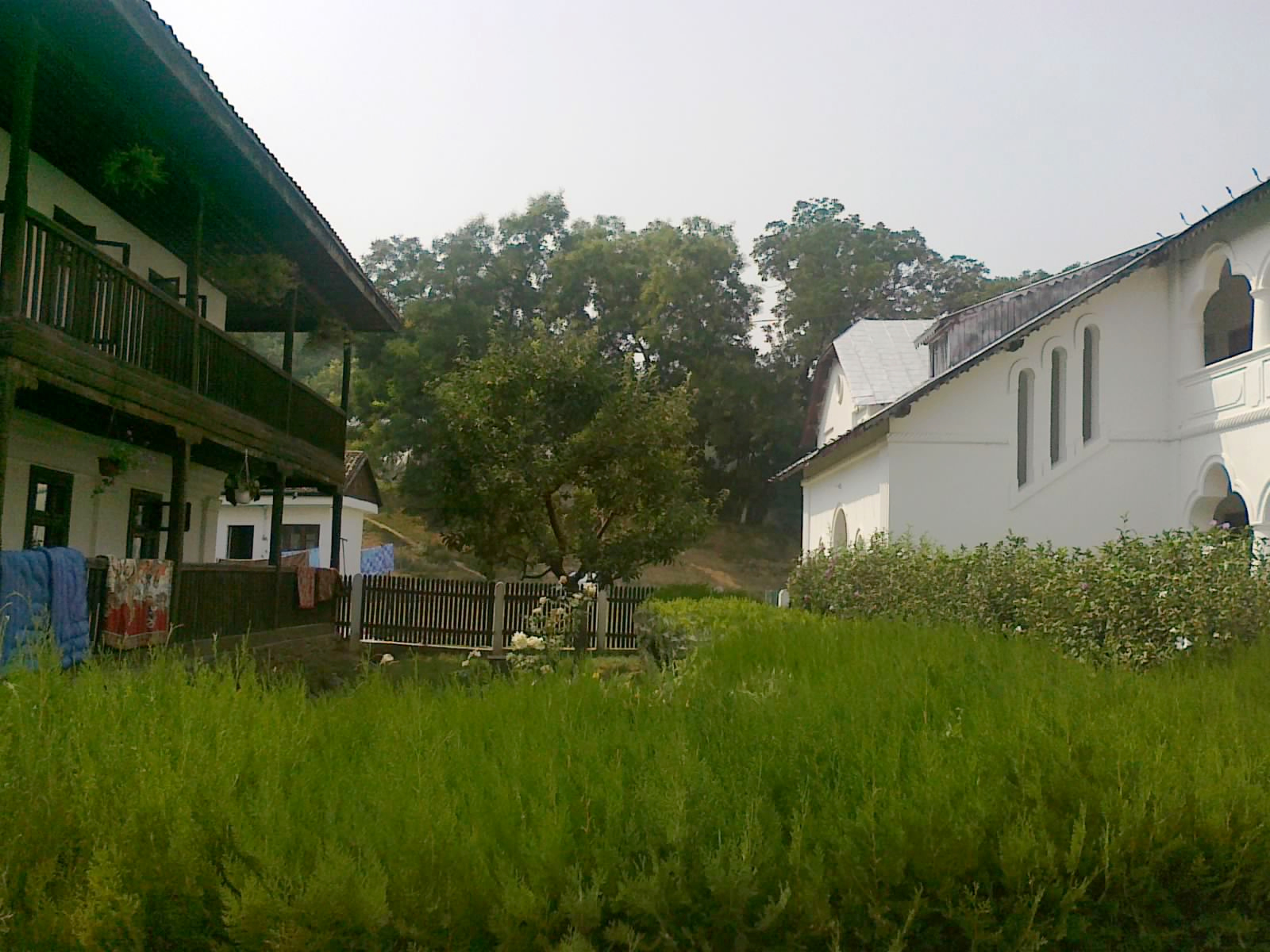 Yard of the monastery